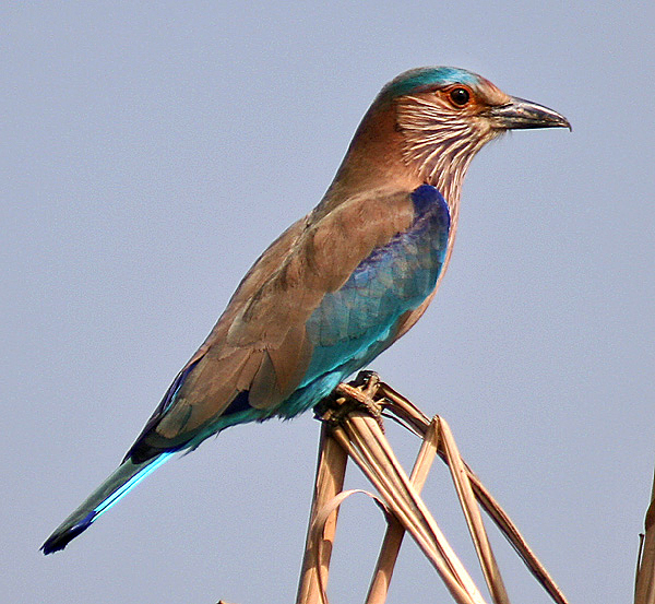 Indian Roller Coracias benghalensis at/ near Hodal in Faridabad District of Haryana, India.